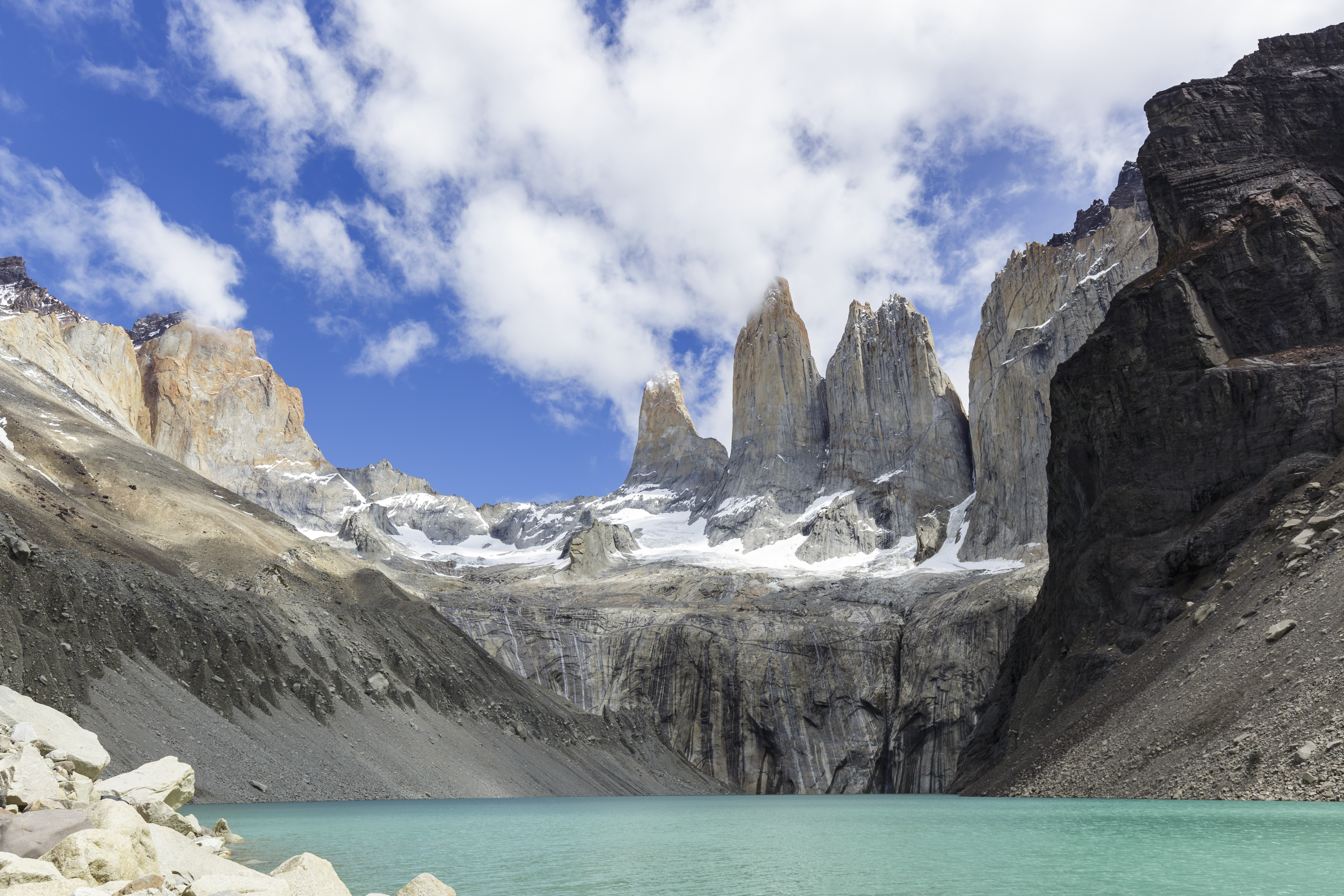 PanAmericana 2017 - the image was taken on an overlanding travel from Ushuaia to Anchorage - taken by Thomas Fuhrmann, SnowmanStudios - see more pictures on / mehr Aufnahmen auf